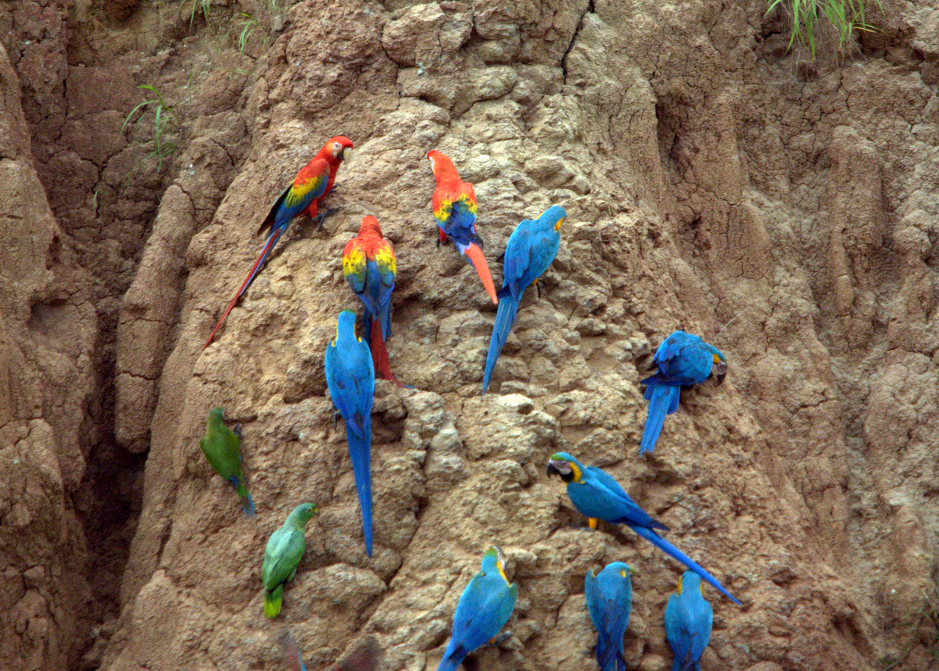 Blue-and-yellow Macaws, Scarlet Macaws, one Mealy Amazon, and one Chestnut-fronted Macaw at the clay lick at Tambopata National Reserve, Peru.